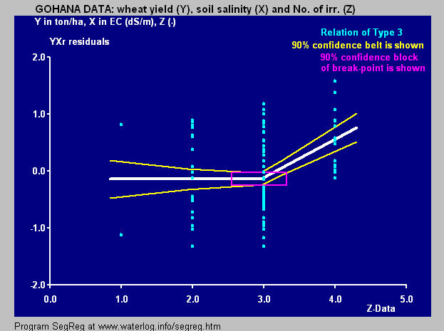 Graph produced by free SegReg software for segmented regression of residuals on a second independent variable, the residuals being left after a segmented regression on the first independent variable